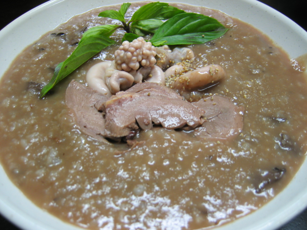 Congee made with pork offal and black pudding